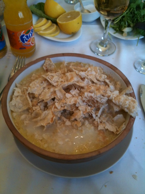 A bowl of Armenian Khash